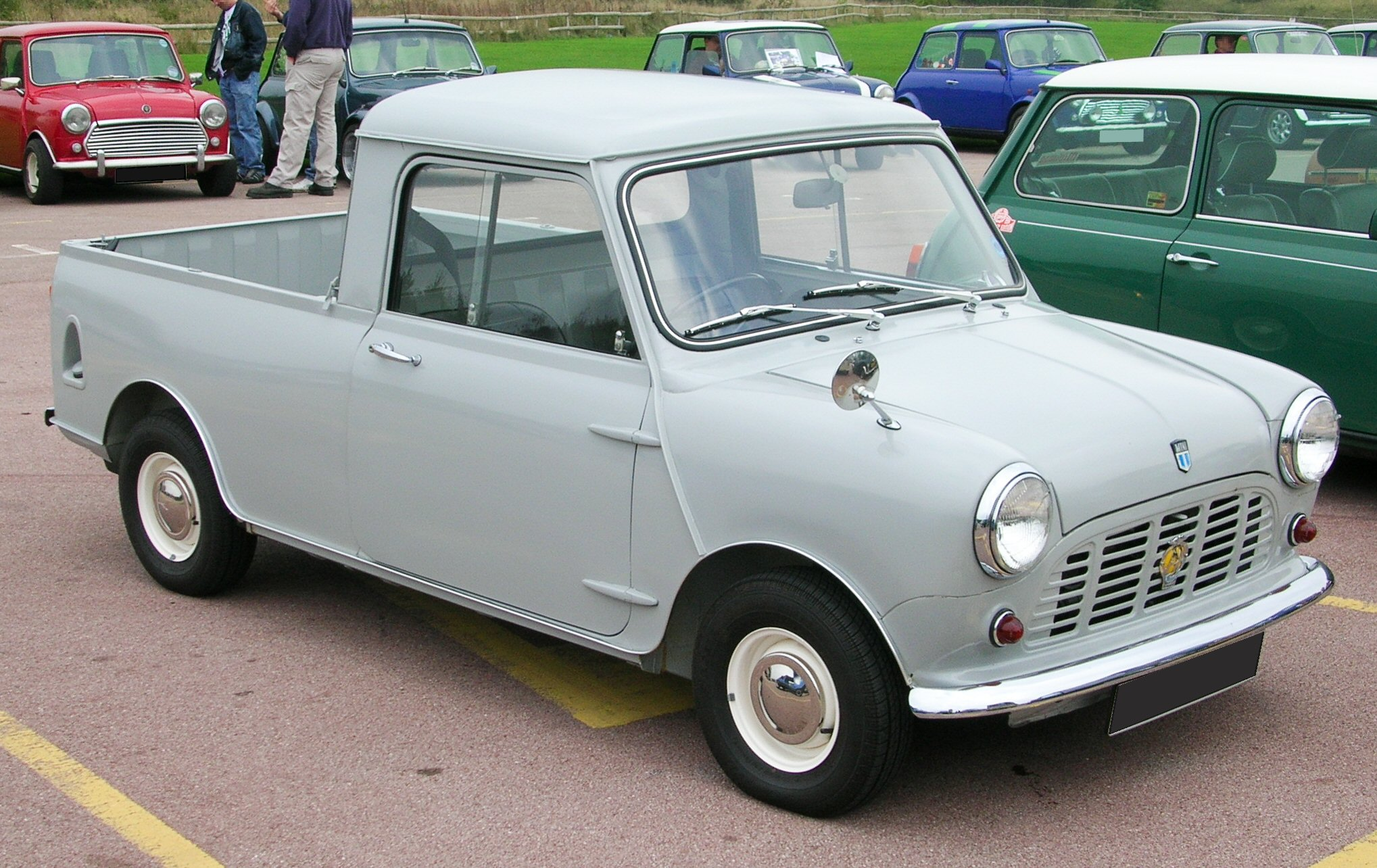 A 1972 Mini Pickup (850cc) at the Alec Issigonis centenary rally in 2006 at the Heritage Motor Centre, Gaydon, UK